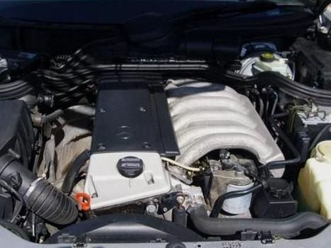 OM606 D30 LA engine